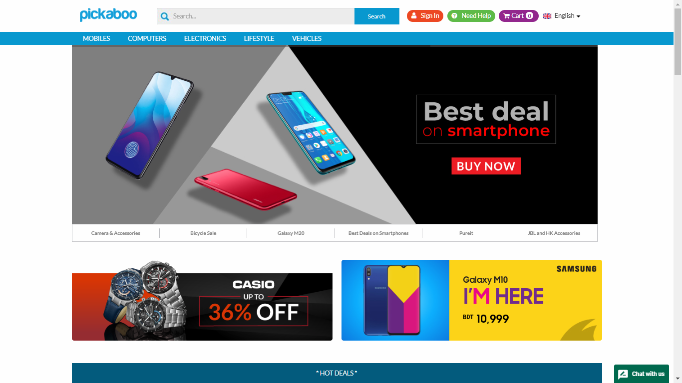 Home Page English version half page screen shot for representing .